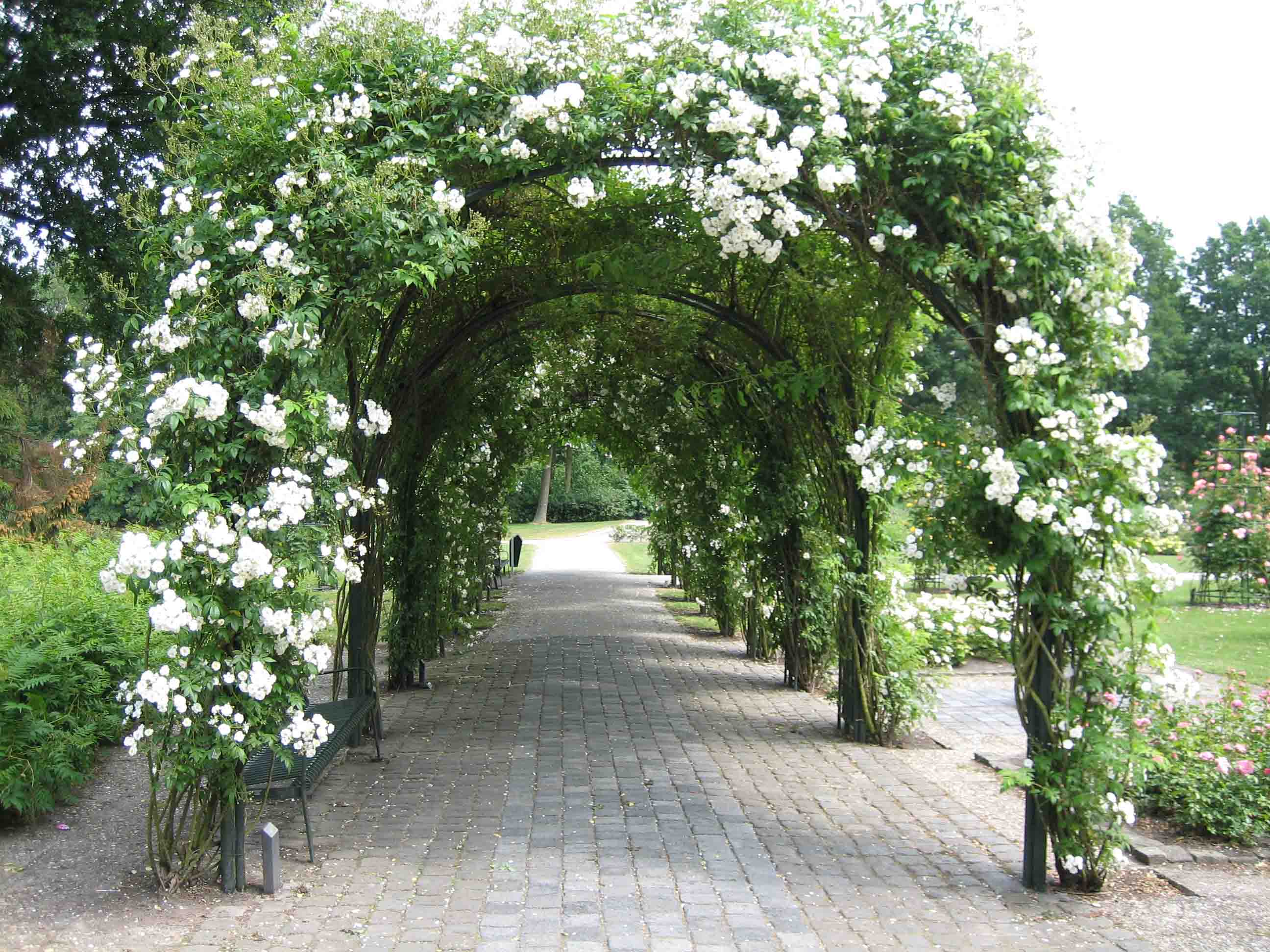 Winschoten, Netherlands,Rosarium